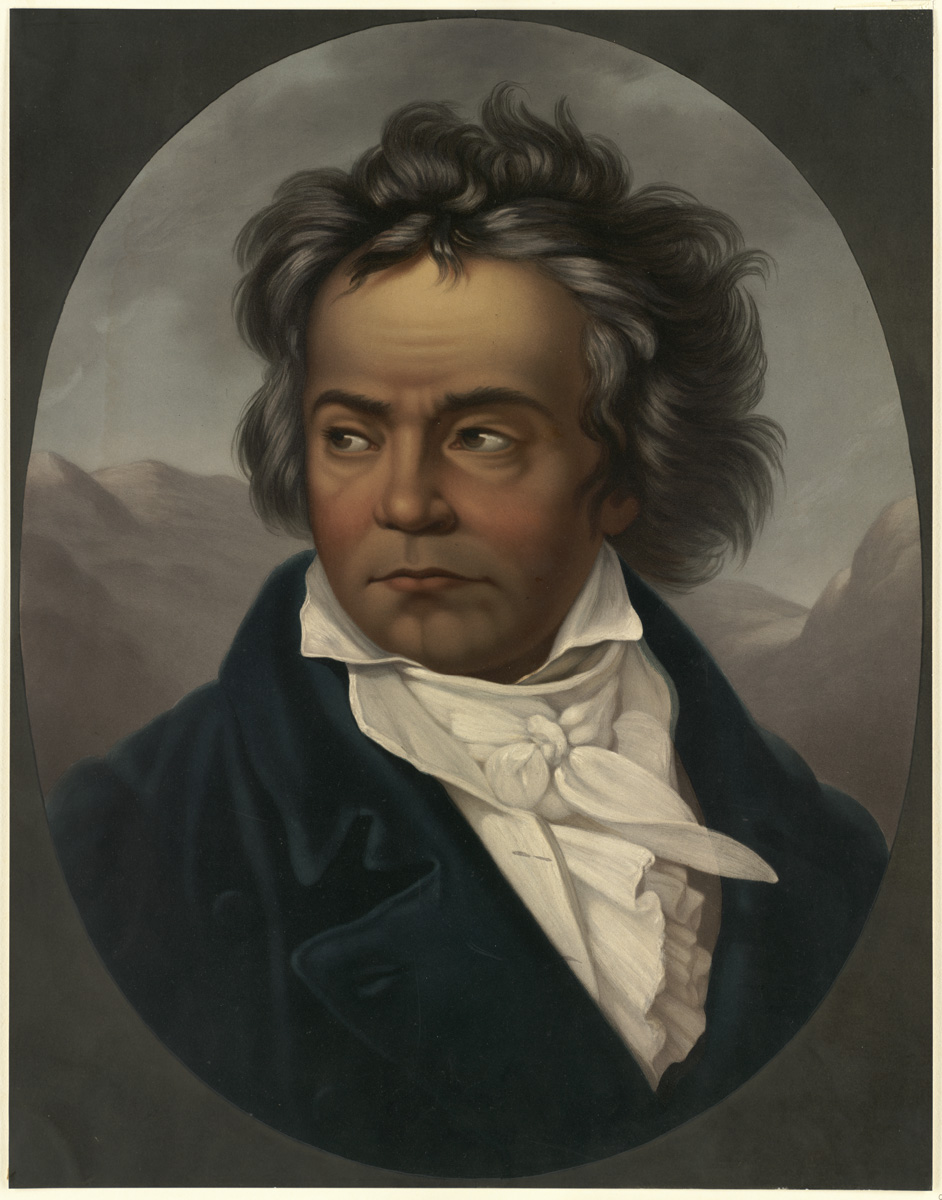 File name: 07_11_000962 Title: Ludwig van Beethoven Creator/Contributor: L. Prang & Co. (publisher) Date issued: 1861-1897 (approximate) Copyright date: Physical description note: Genre: Chromolithographs; Portrait prints Location: Boston Public Library, Print Department Rights: No known restrictions Flickr data on 2011-08-05: Camera: Sinar AG Sinarback 54 FW, Sinar m License: CC BY 2.0 User: Boston Public Library BPL